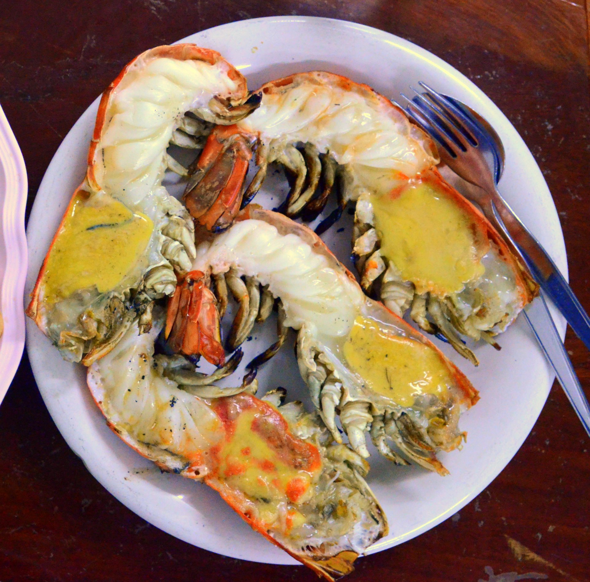 Kung phao (Thai script: กุ้งเผา), literally "burned prawns", are grilled prawns usually served with a dipping sauce (nam chim) made from mashed bird's eye chillies, coriander root, fish sauce, sugar and lime juice. The prawns seen in this image are large river prawns (Macrobrachium rosenbergii) which are called kung kam kram (Thai script: กุ้งก้ามกราม), kung mae nam (litt. "river prawns"; Thai script: แม่น้ำ) or kung luang (litt. "superior/royal prawns"; Thai script: กุ้งหลวง). The two prawns used for this dish each weighed around 500 grams. The yellow "sauce" is a thick liquid that comes from the prawn head and lends cooked/grilled/fried prawns a unique flavour. At the "Che Dam" restaurant in Pathum Thani province.